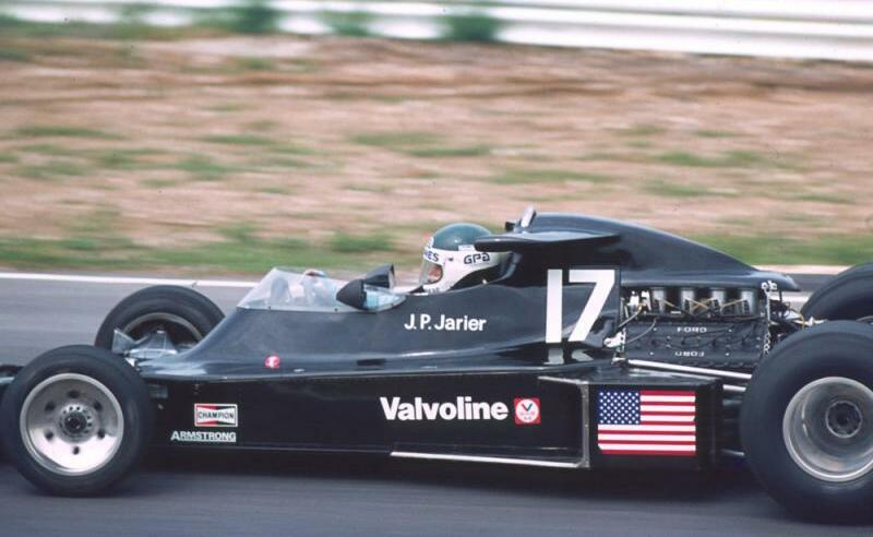 Jean-Pierre Jarier with UOP Shadow